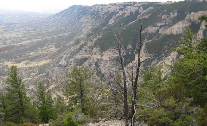 The Pryor Mountains — in the state of Montana, the northwesternUnited States.